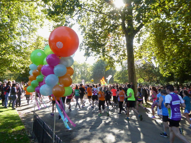 Runners in Hyde Park